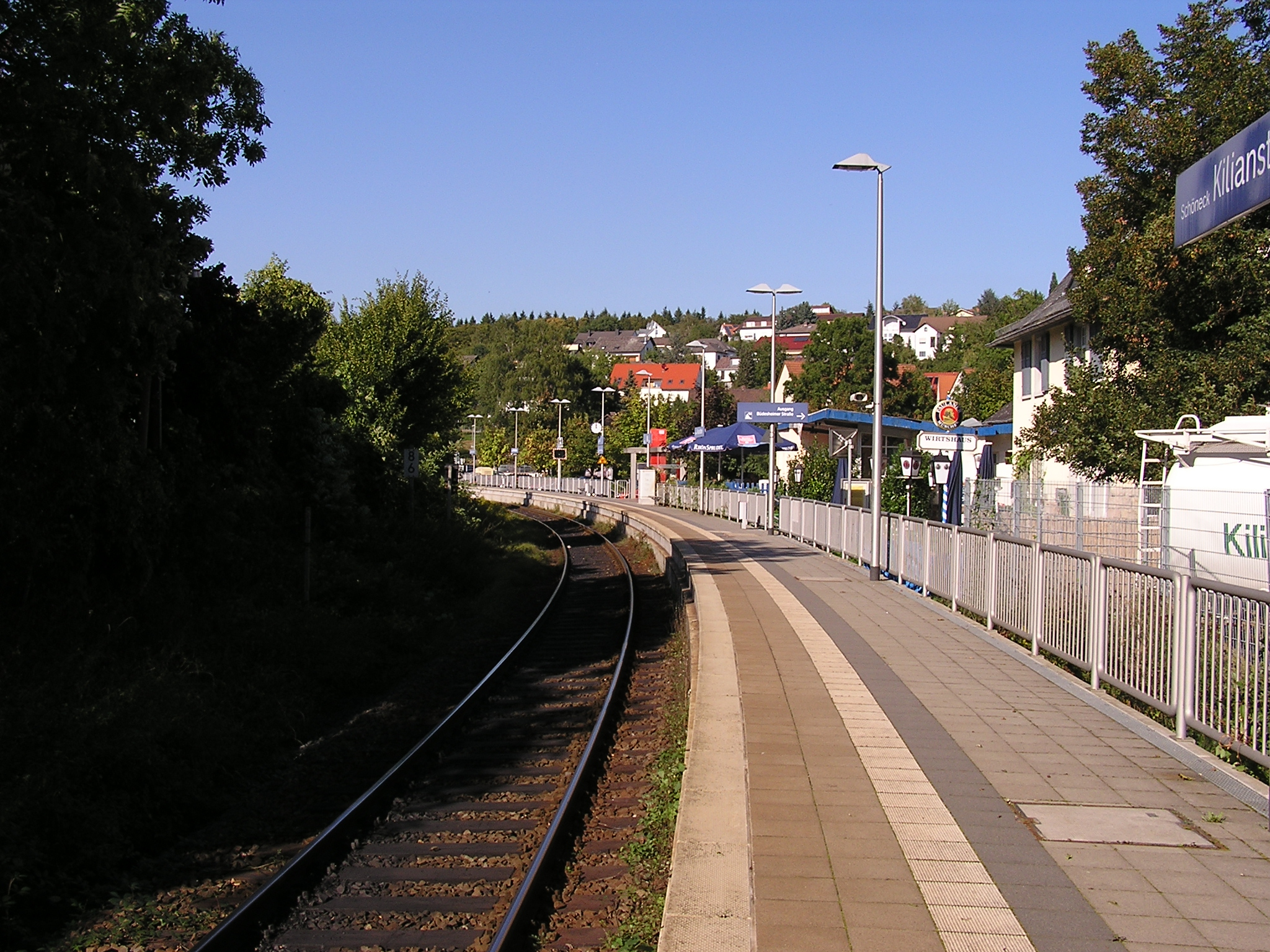 Train stop Schöneck-Kilianstädten at the Niddertalbahn